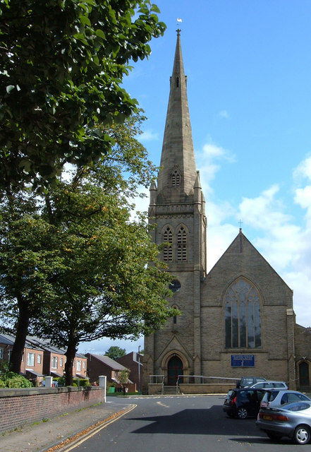 St Paul's parish church, Church Street, Royton, Greater Manchester, seen from the west